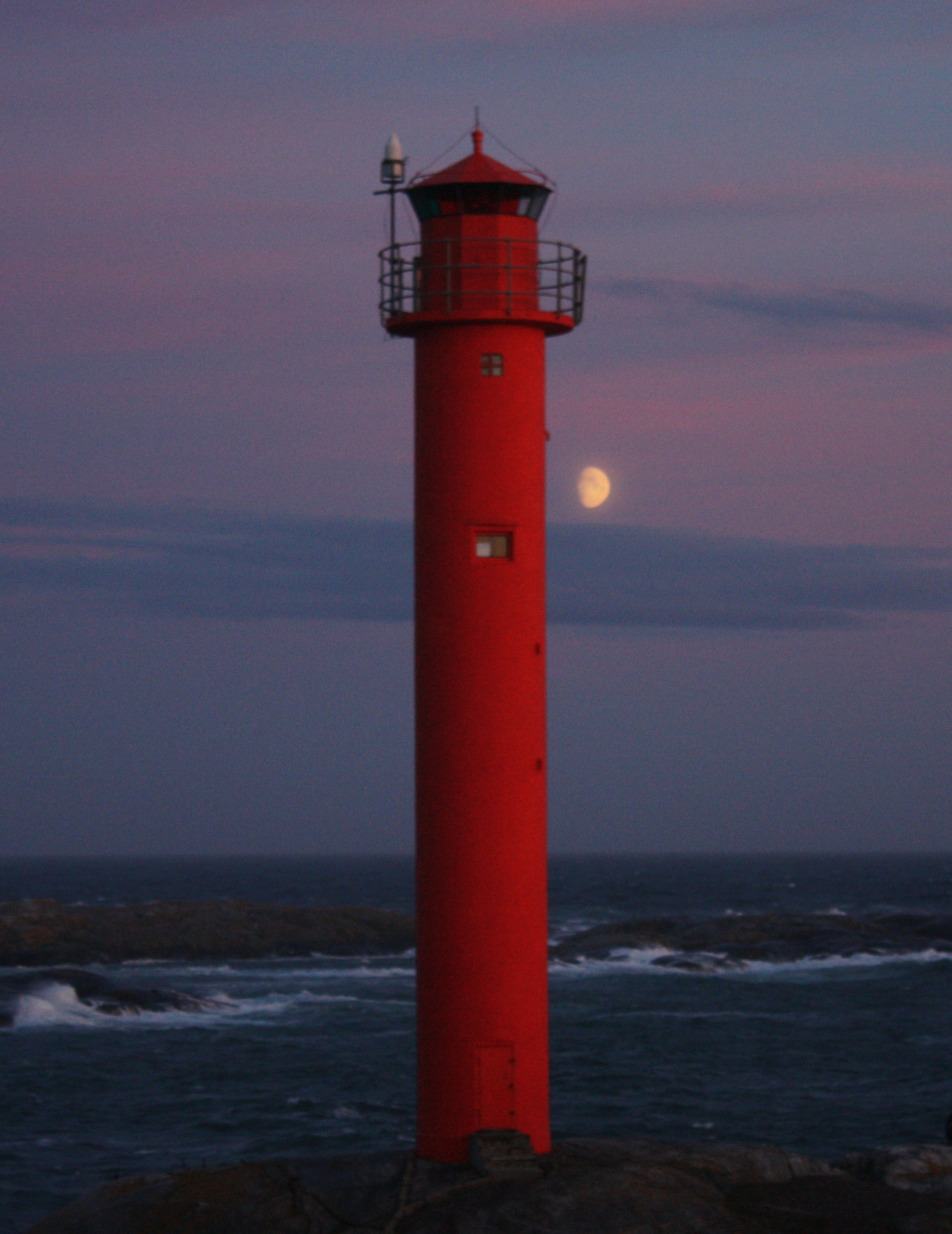 Vaderobod lighthouse, Sweden, (built in 1964)